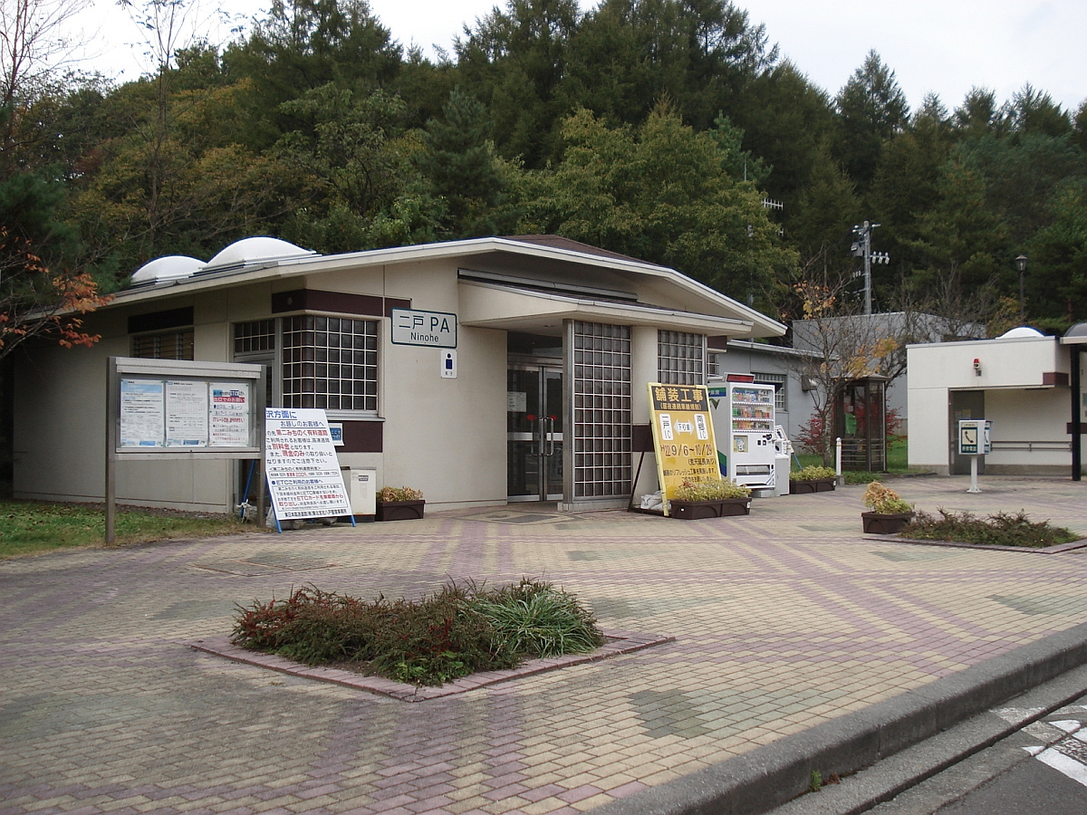 This rest area, Ninohe Parking Area（for Hachinohe）, is on Hachinohe Expressway, in Ninohe city, Iwate Prefecture, Japan.